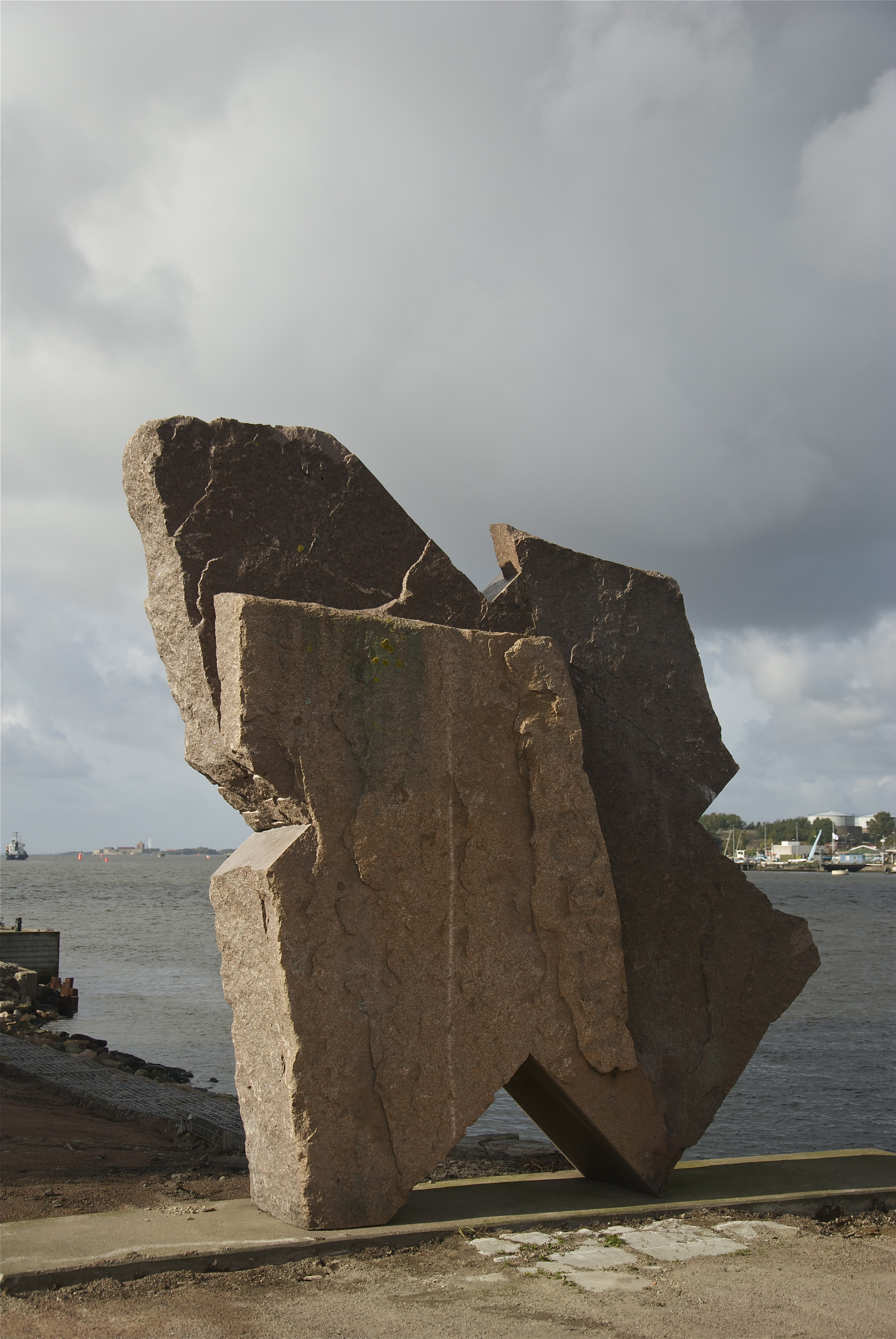 Sculpture outside Röda sten (Swedish: Red stone) art center in Gothenburg. Artist: Leo Pettersson. Material: Granite.